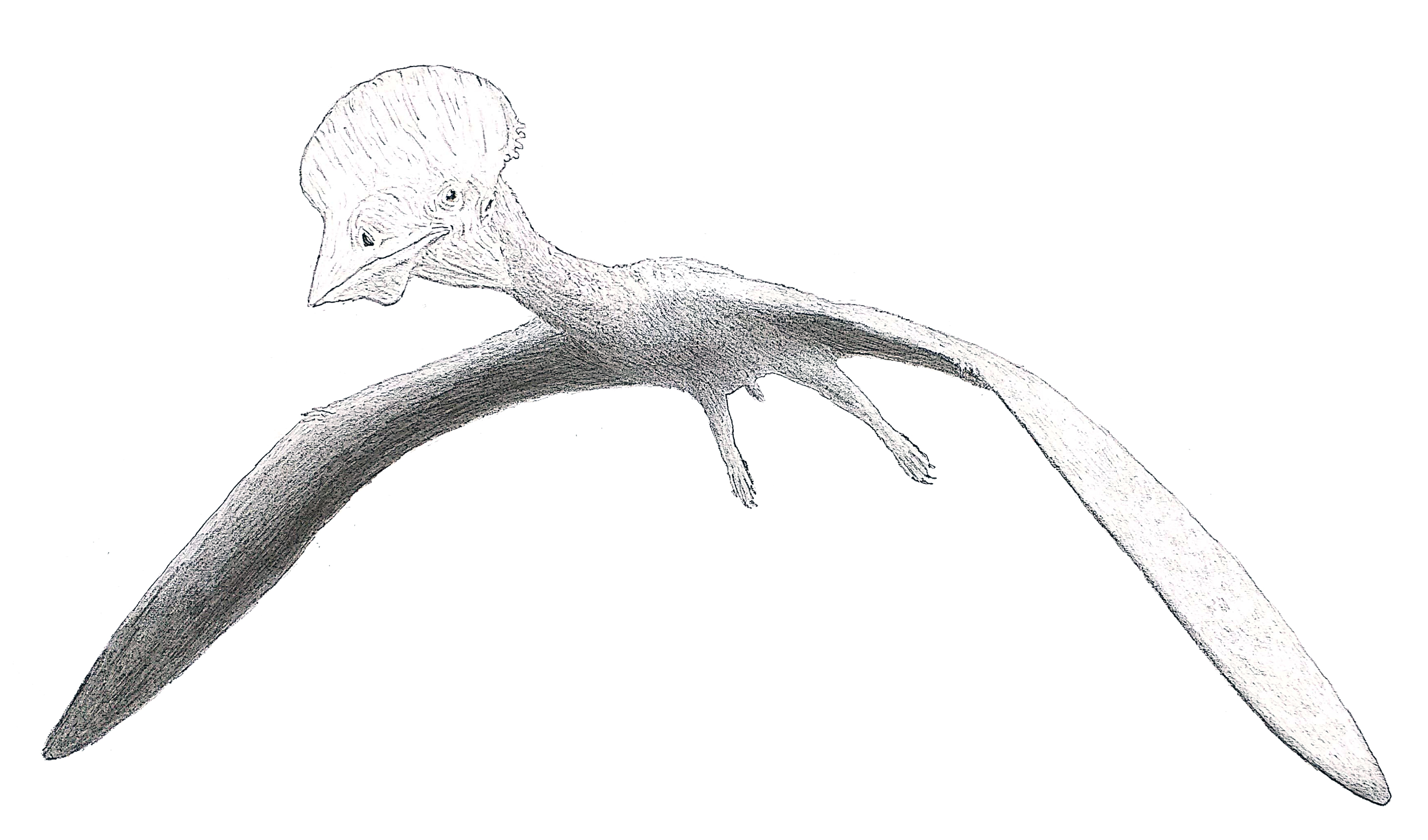 Reconstruction of Afrotapejara zouhri